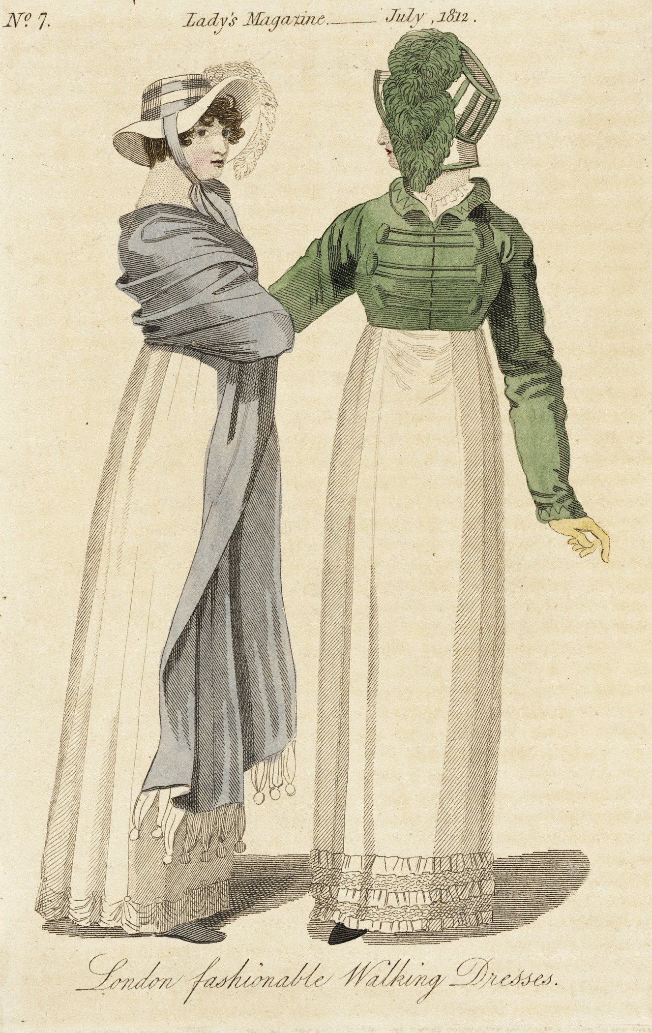 England, London, July 1812 Prints; engravings Hand-colored engraving on paper Gift of Dr. and Mrs. Gerald Labiner (M.86.266.104) Costume and Textiles